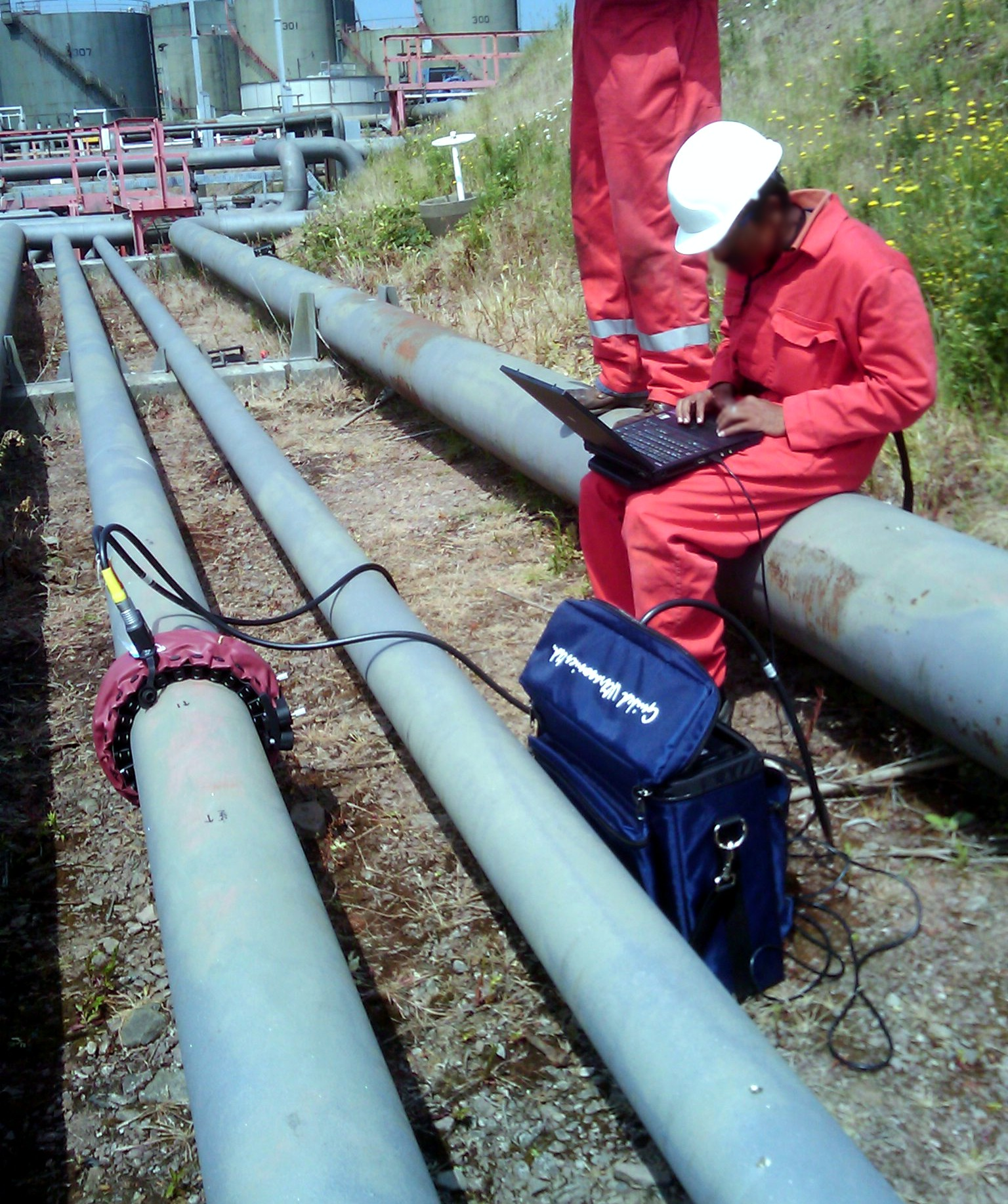 An example of the guided wave testing